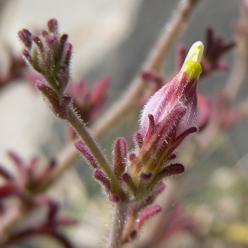 Cordylanthus parviflorus at the summit of Turtlehead Peak, Spring Mountains, southern Nevada (elev. about 1900 m)